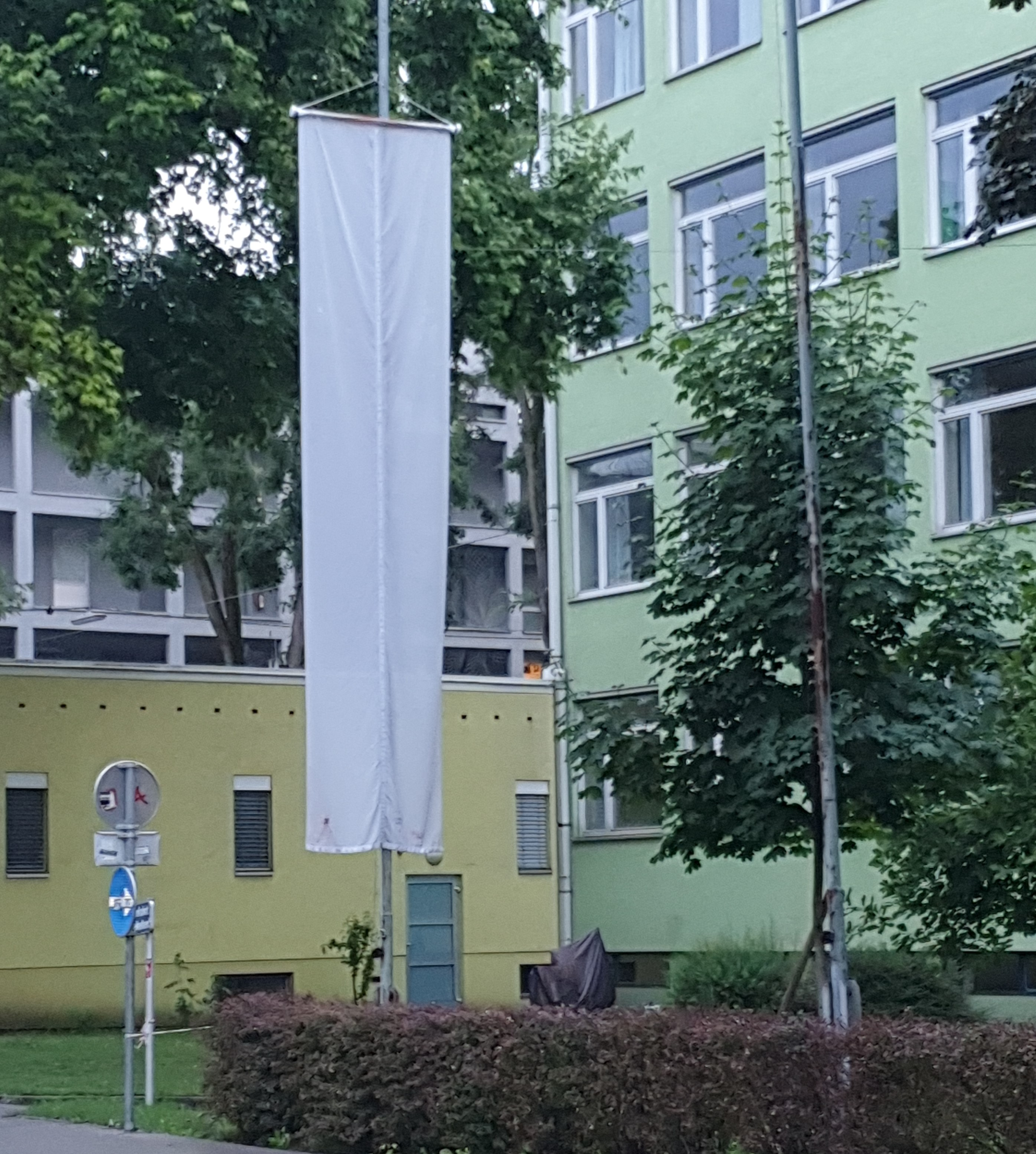 White flag after the "Matura" at BG Carneri in Graz